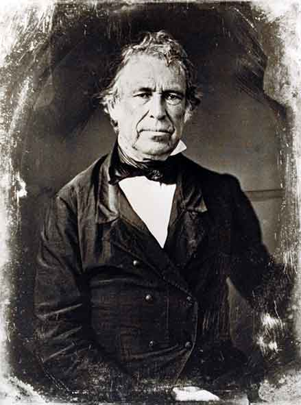 Daguerreotype of Zachary Taylor, 12th President of the United States. Date unknown.